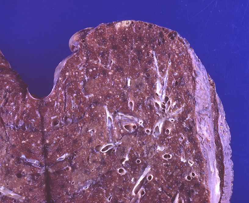 Miliary tuberculosis can occur when tuberculous lung lesions erode pulmonary veins or when when extrapulmonary tuberculous lesions erode systemic veins.This results in hematogenous dissemination of tubercle bacilli producing myriads of 1-2 mm. lesions throughout the body in susceptible hosts. Miliary spread limited to the lungs can occur following erosion of pulmonary arteries by tuberculous lung lesions.